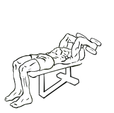 an exercise of triceps